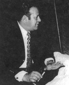 North Yemeni prime minister Muhsin al-Aini (Mohsen el-Ainy)